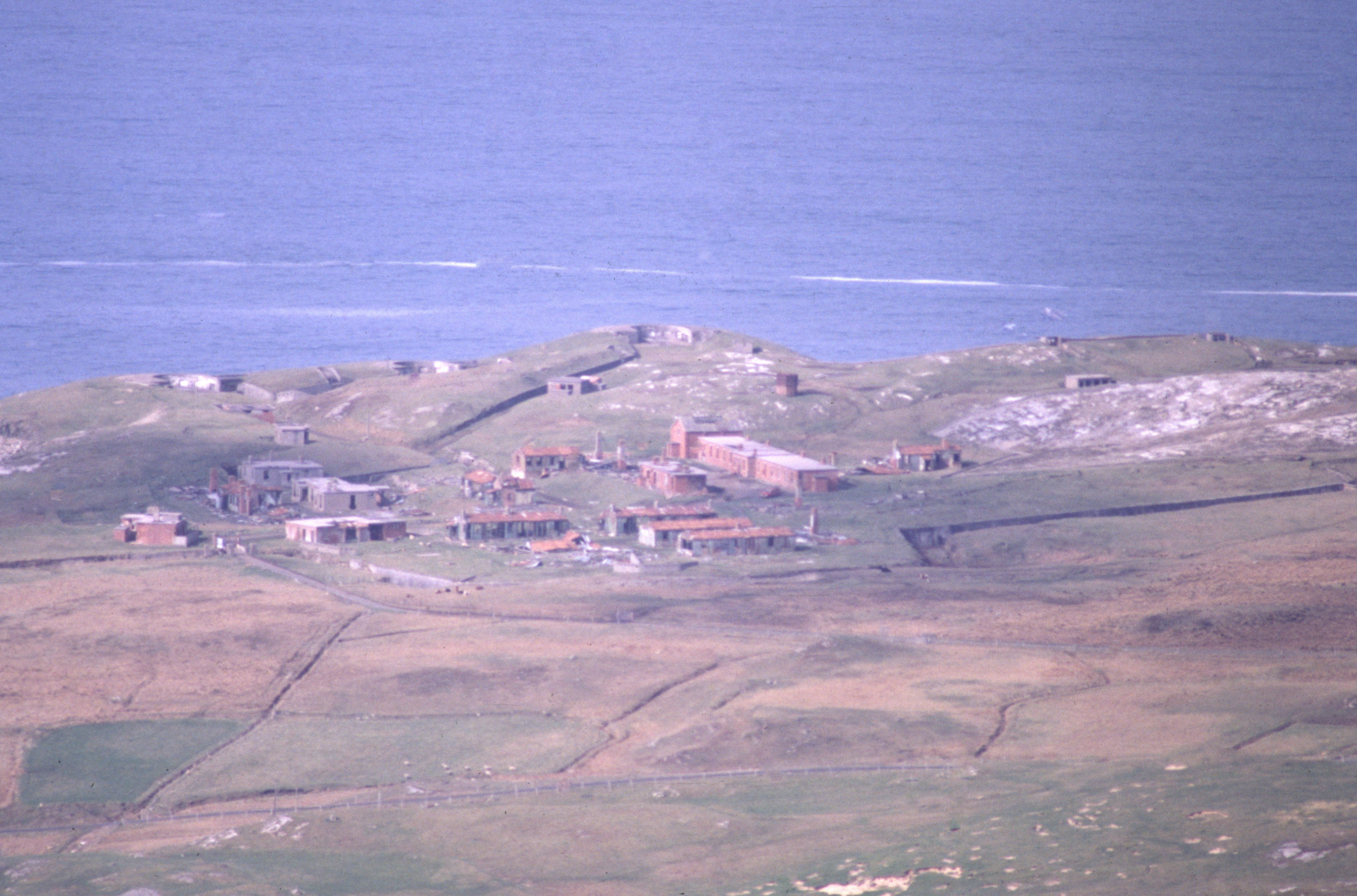 Long lens view of Lenan Fort Co Donegal Ireland